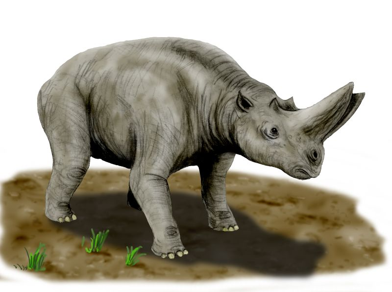 Arsinoitherium zitteli, an embrithopod from the Late Eocene and Early Oligocene of Egypt, pencil drawing, digital coloring